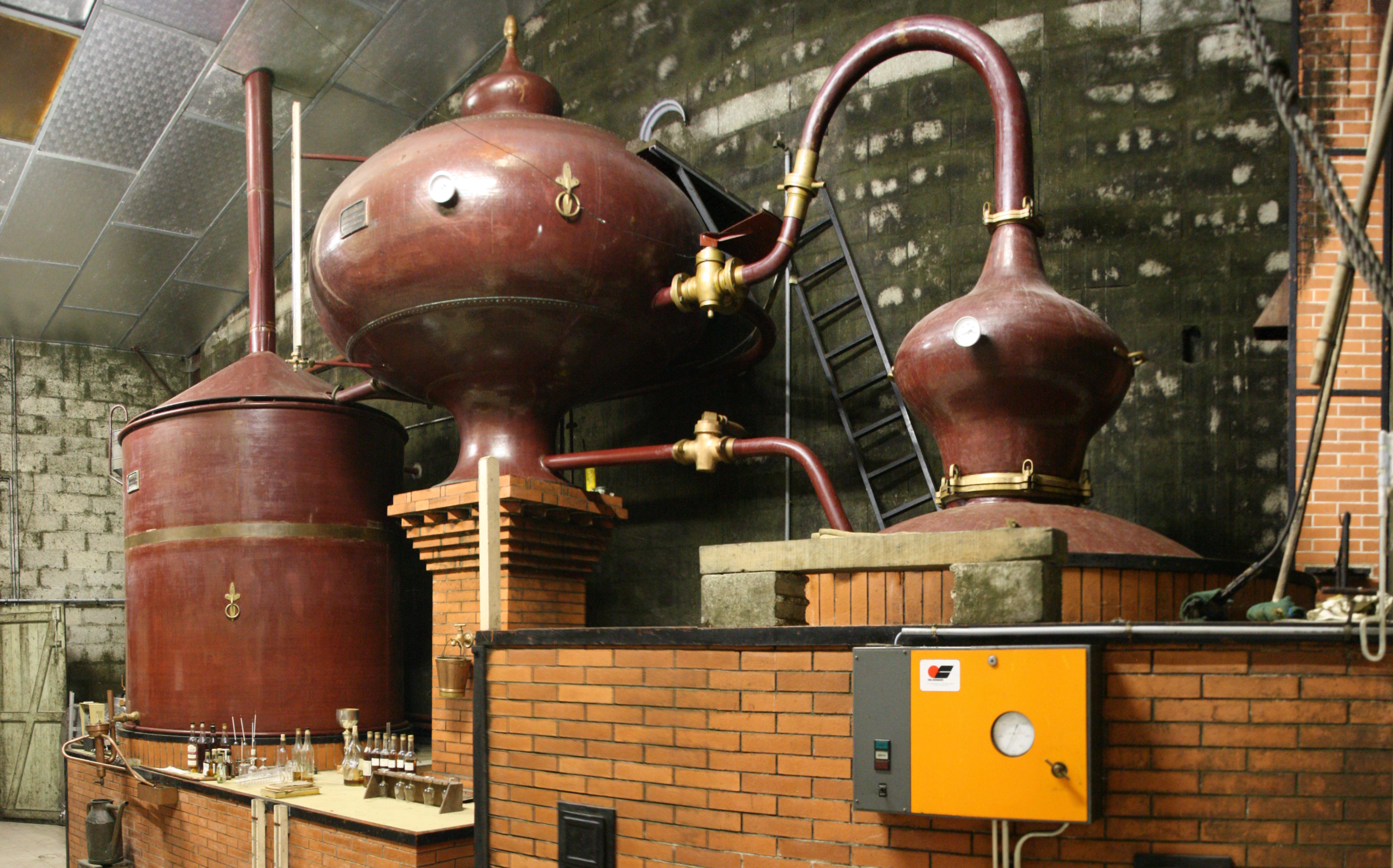 A pot still of Cognac, in Cherves de Cognac, Charente, Poitou-Charentes, France.